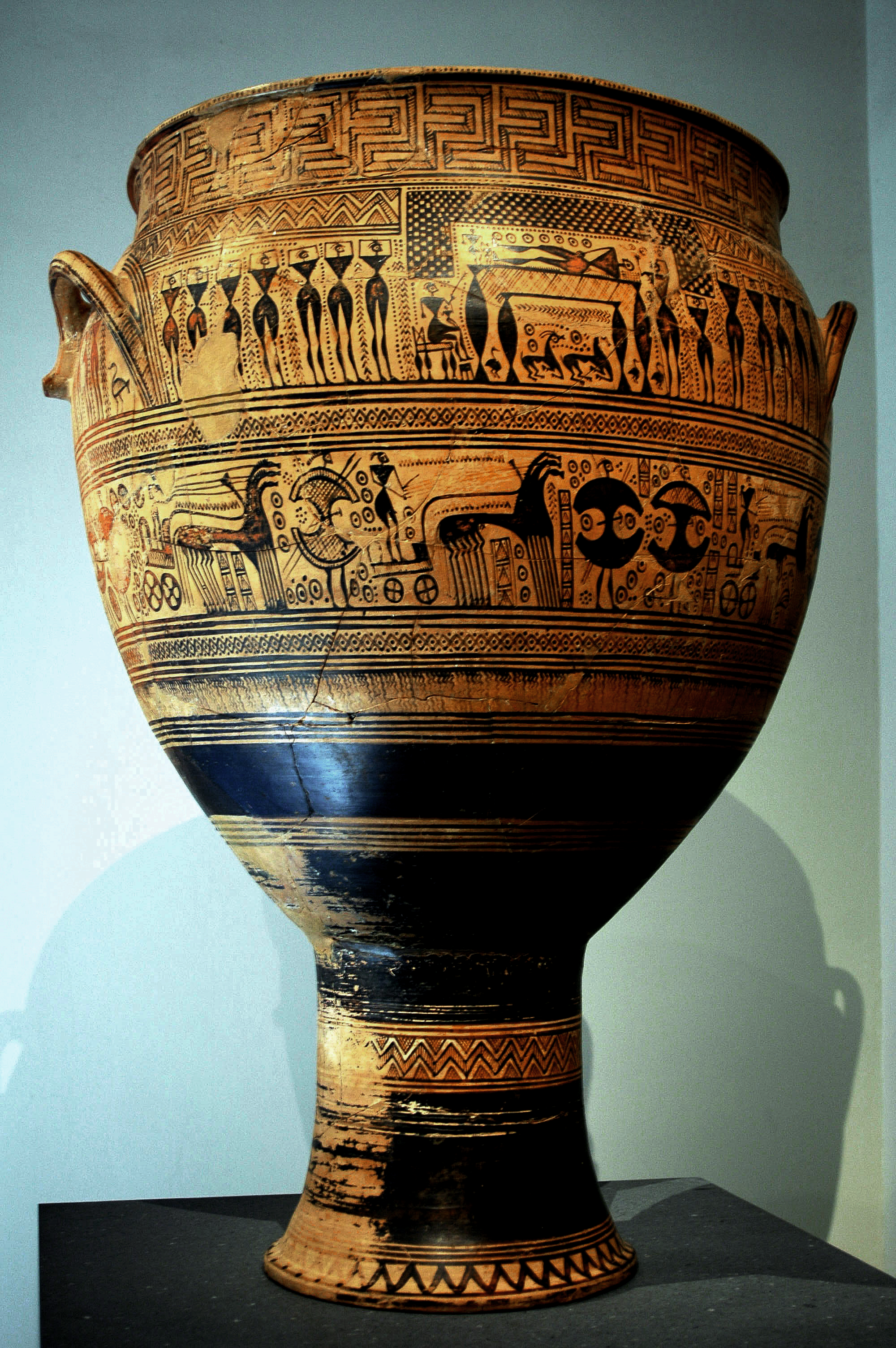 Funerary Krater with a prothesis scene (upper tier) and a procession of chariots and foot soldiers (lower tier)